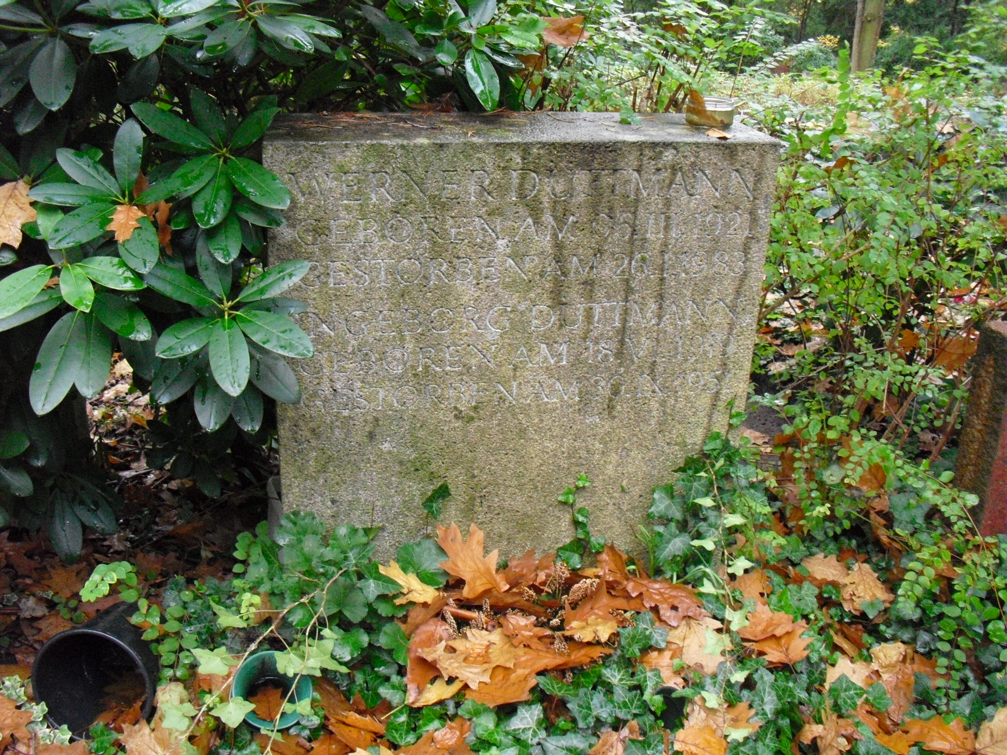 Grave of German architect Werner Düttmann in Friedhof Heerstraße in Berlin-Westend